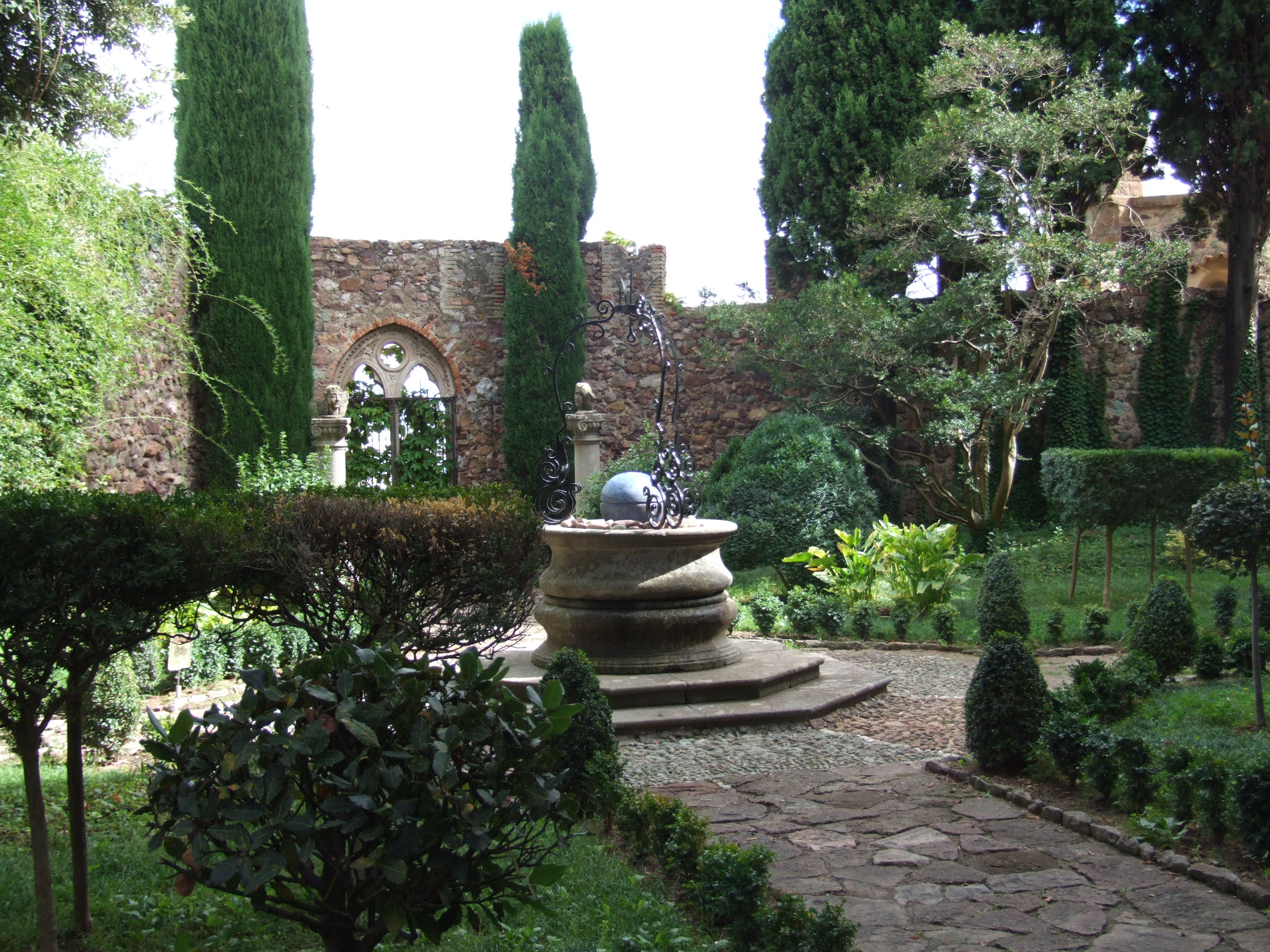 La Napoule Castle garden and wellhead, Mandelieu la Napoule, FRANCE